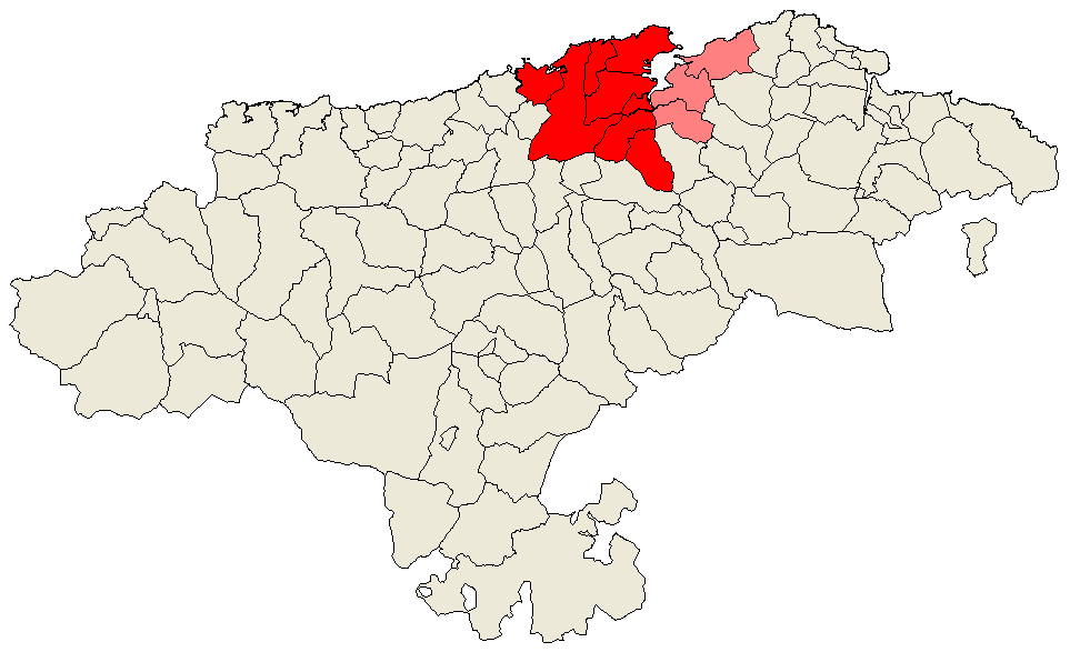 Map of the comarca of Santander, Cantabria (Spain) - The official comarca in red, other municipalities by the Santander Bay in lighter red.